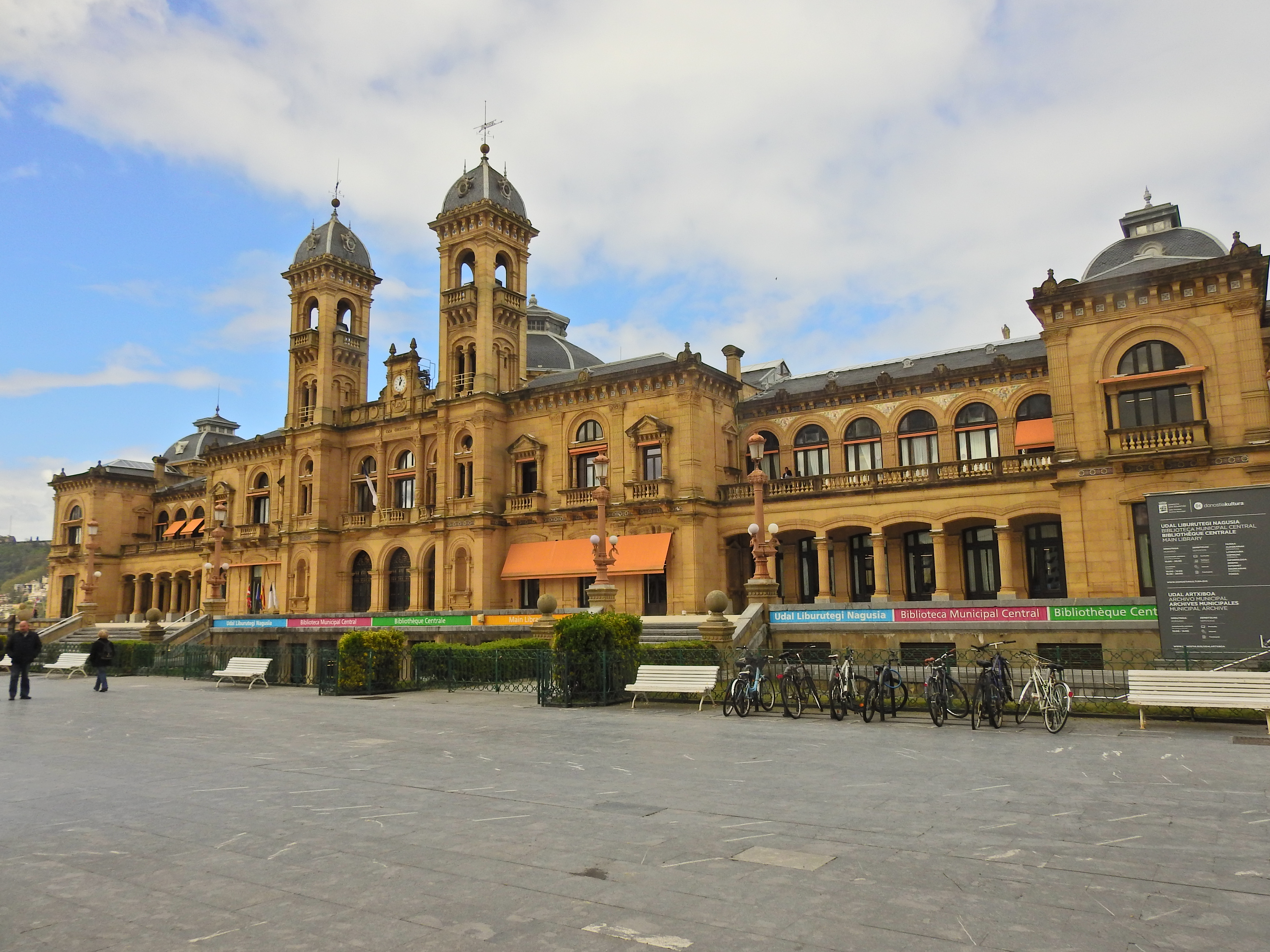 Town Hall of Donostia-San Sebastián, Spain. April 2019.